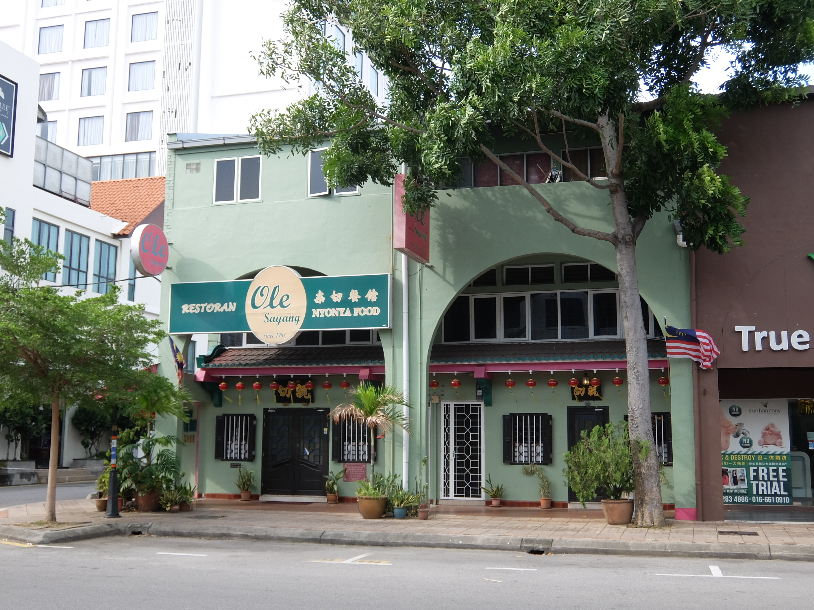 Ole Sayang Nyonya Food Restaurant, Melaka City, Central Melaka, Melaka, Malaysia